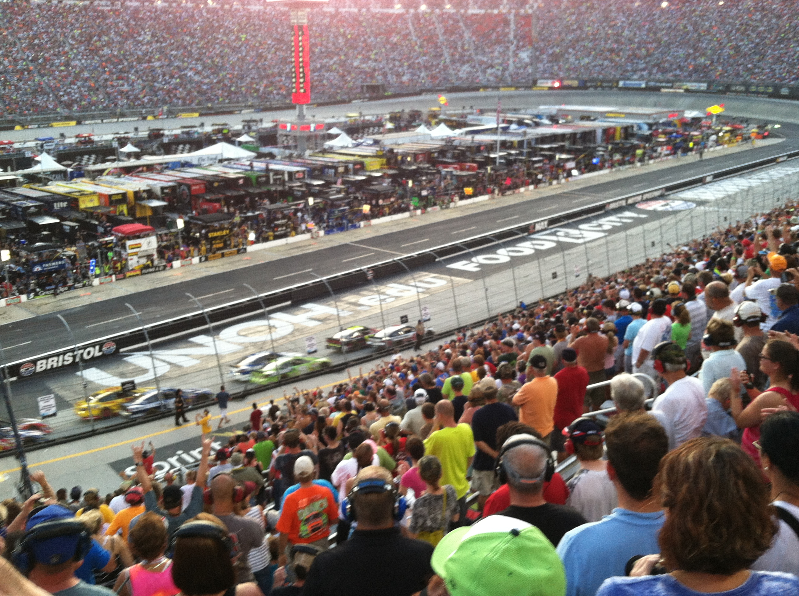 The race is on.